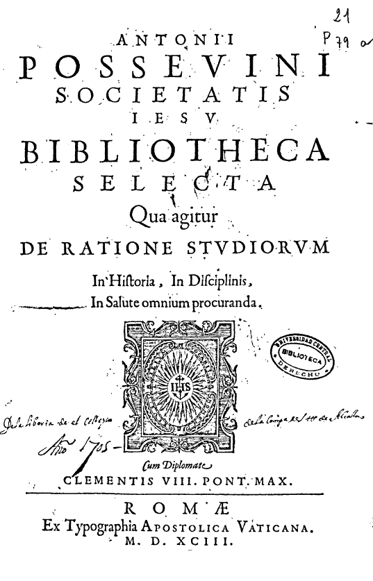 Title page of Bibliotheca selecta de ratione studiorum in Historia, In Disciplinis, in salute omnium procuranda. The Bibliotheca selecta is a bibliographic almanac by the Jesuit Antonio Possevino, published in two folio volumes by the Vatican printer Domenico Basa in 1593.